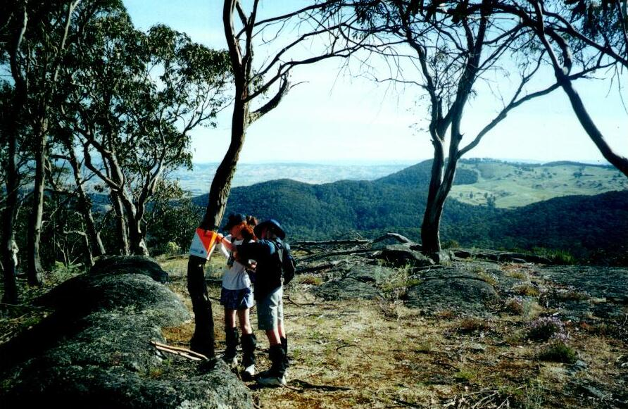 author: Ian Gordon